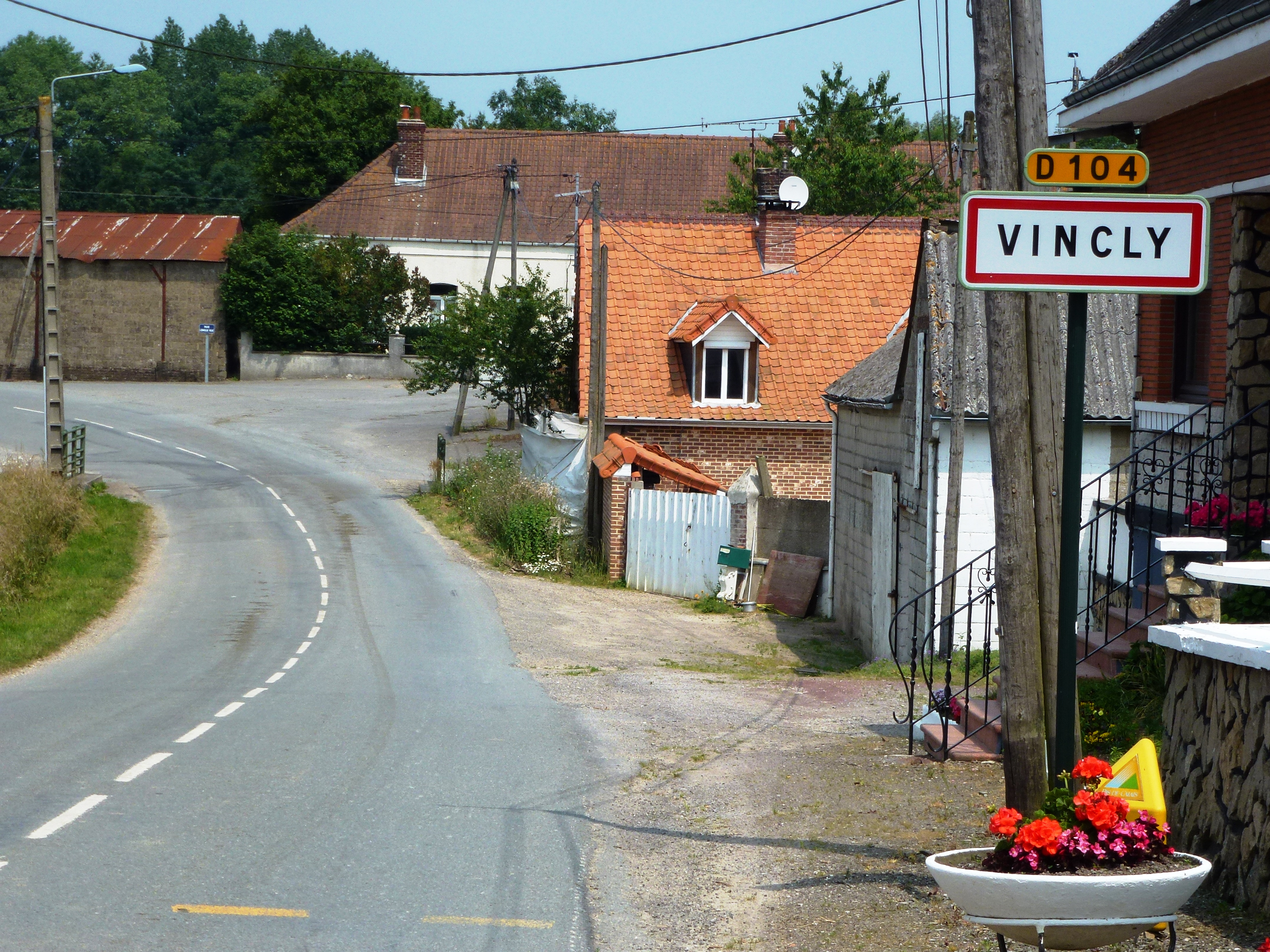 Vincly (Pas-de-Calais, Fr) city limit sign